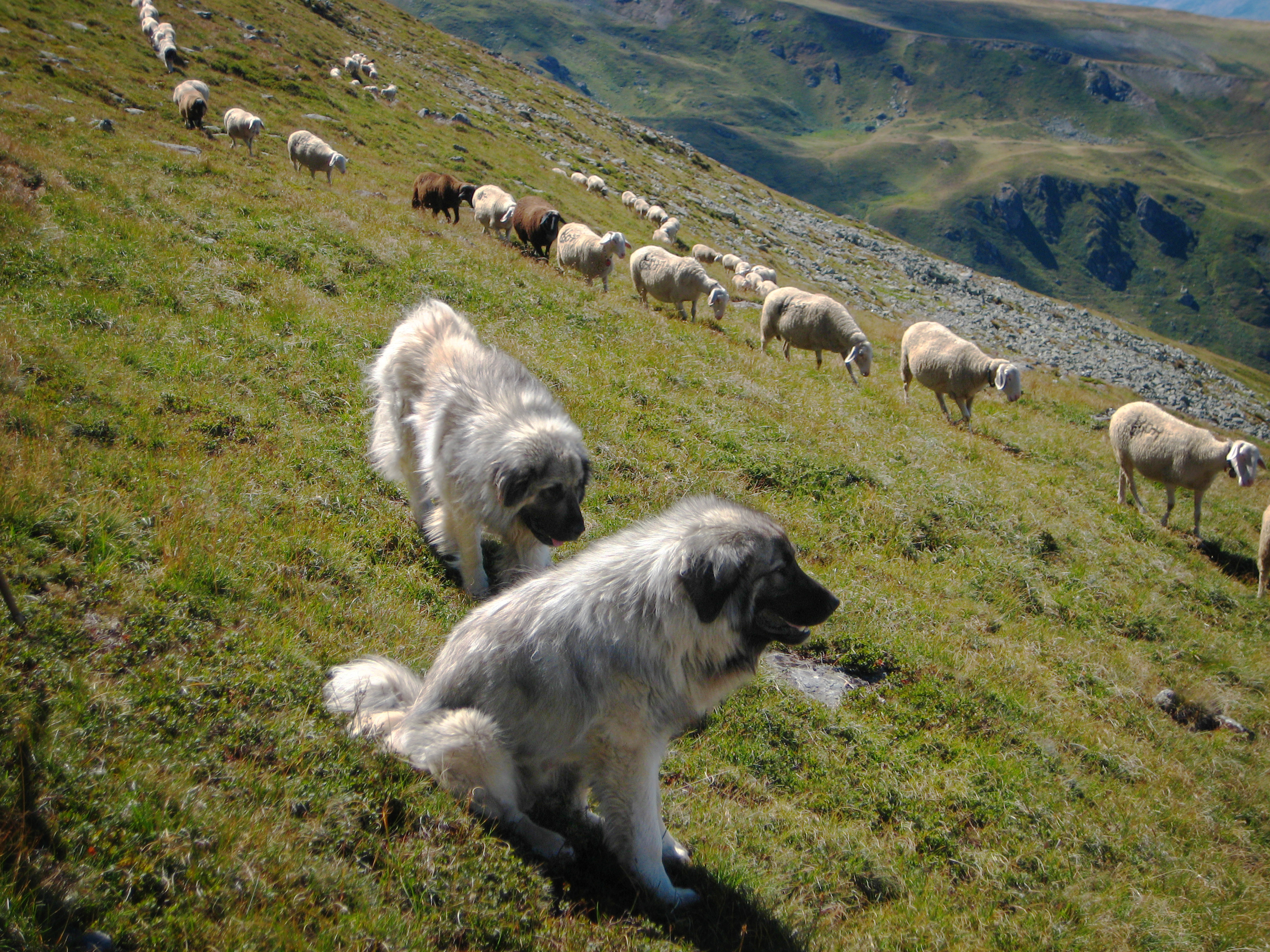 Šar Mountain dogs with a herd at Brinja e Šahit near Maja e Liqenit